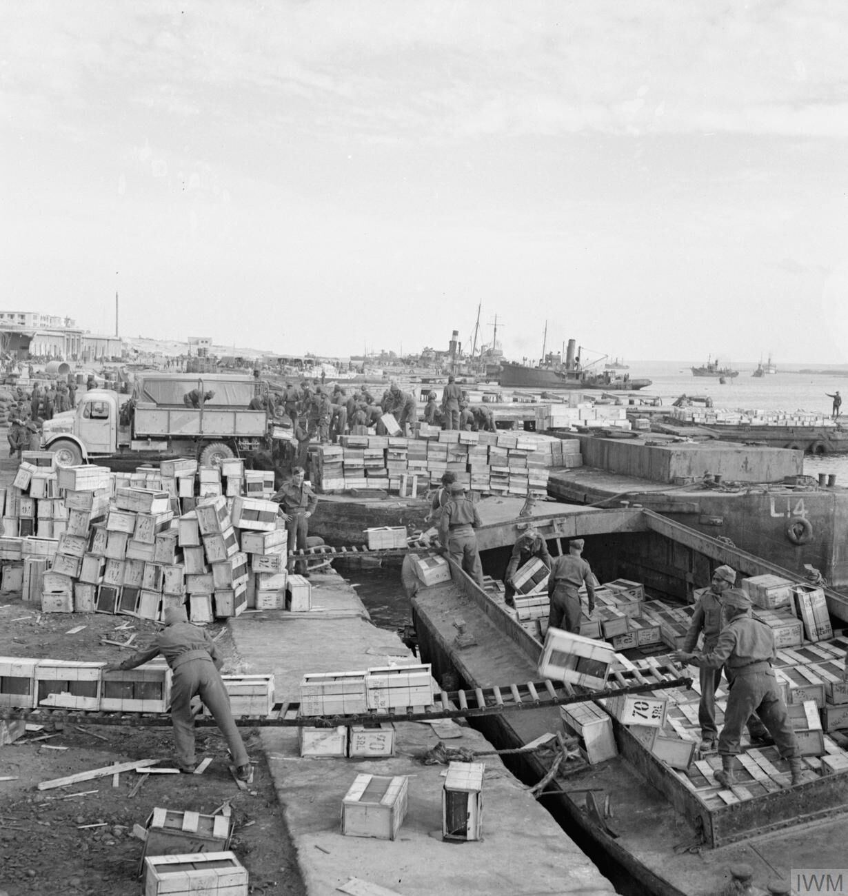 Tobruk Today The scenes in Tobruk now present a different atmosphere compared with those a short while ago when the town was besieged. This image shows lighters being unloaded in Tobruk harbour.